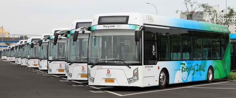 Electric Bus